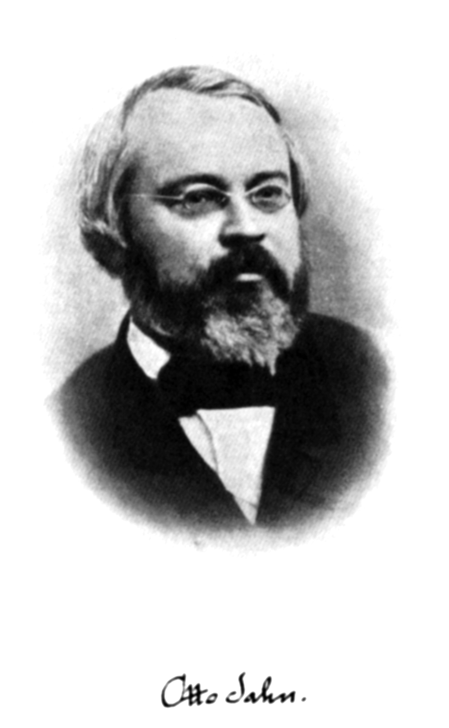 Otto Jahn in Bonn, photograph